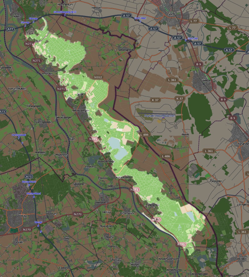 This map may be incomplete, and may contain errors. Don't rely solely on it for navigation.